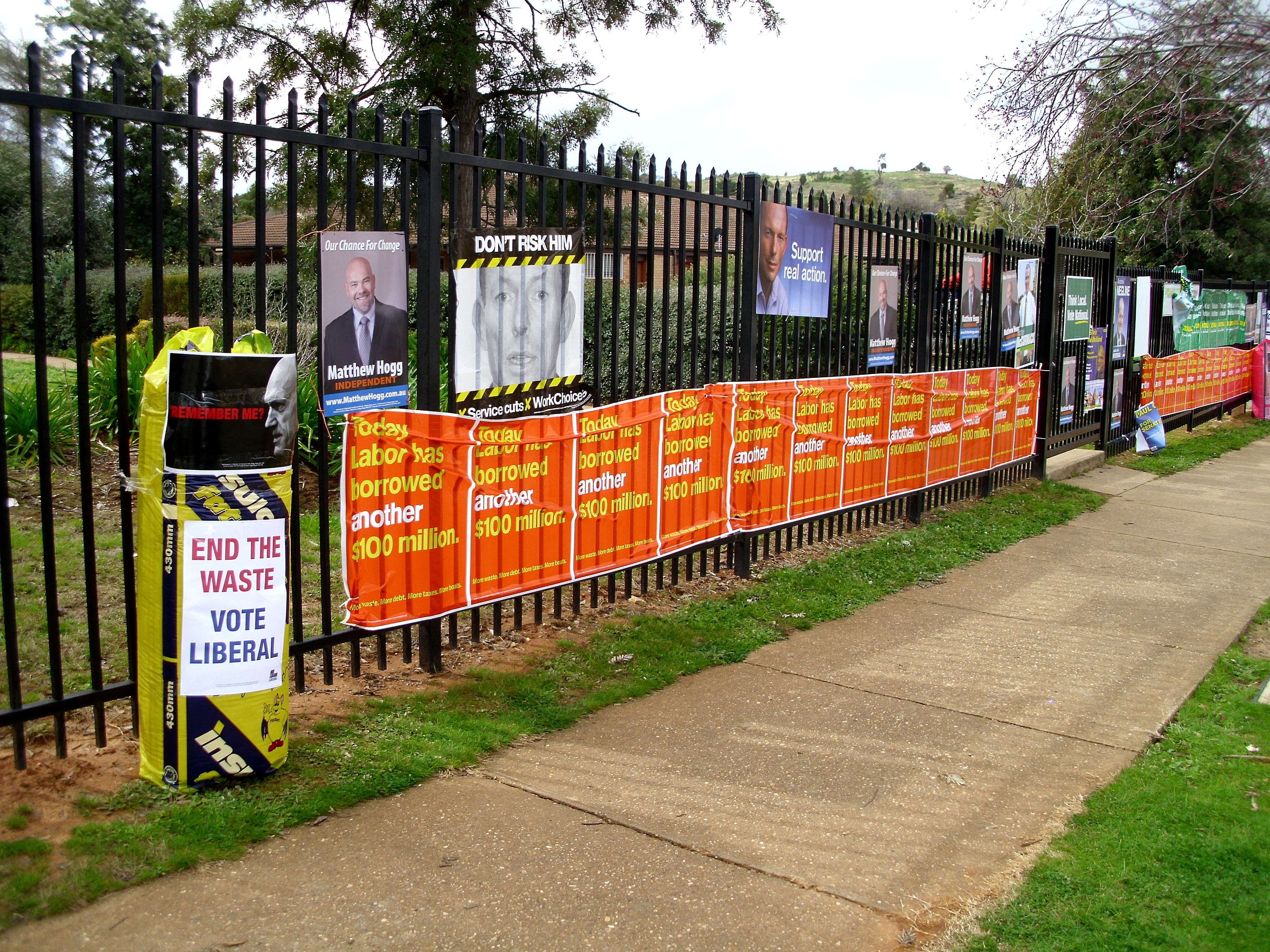 Election adverts at a polling place in the Division of Riverina at the 2010 Australian federal election.